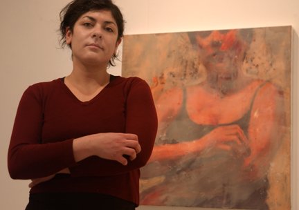 A Wayne State University student poses with her self-portrait